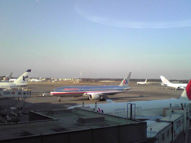 Narita Intrernational Airport Terminal 2. Iran Air Boeing 747 SP, American Airlines Boeing 777-200, China Airlines Boeing 747-400, Air China Boeing 767-300 and Japan Airlines Boeing 767-300